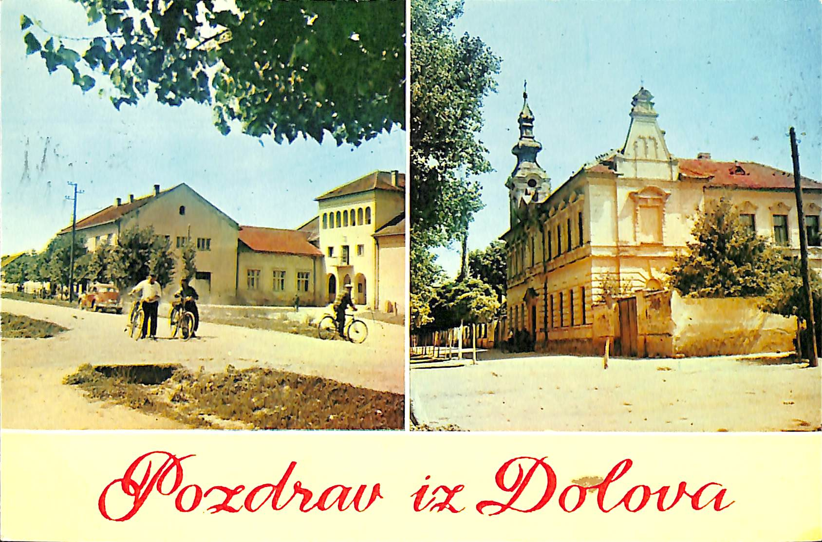 Postcard from Dolovo